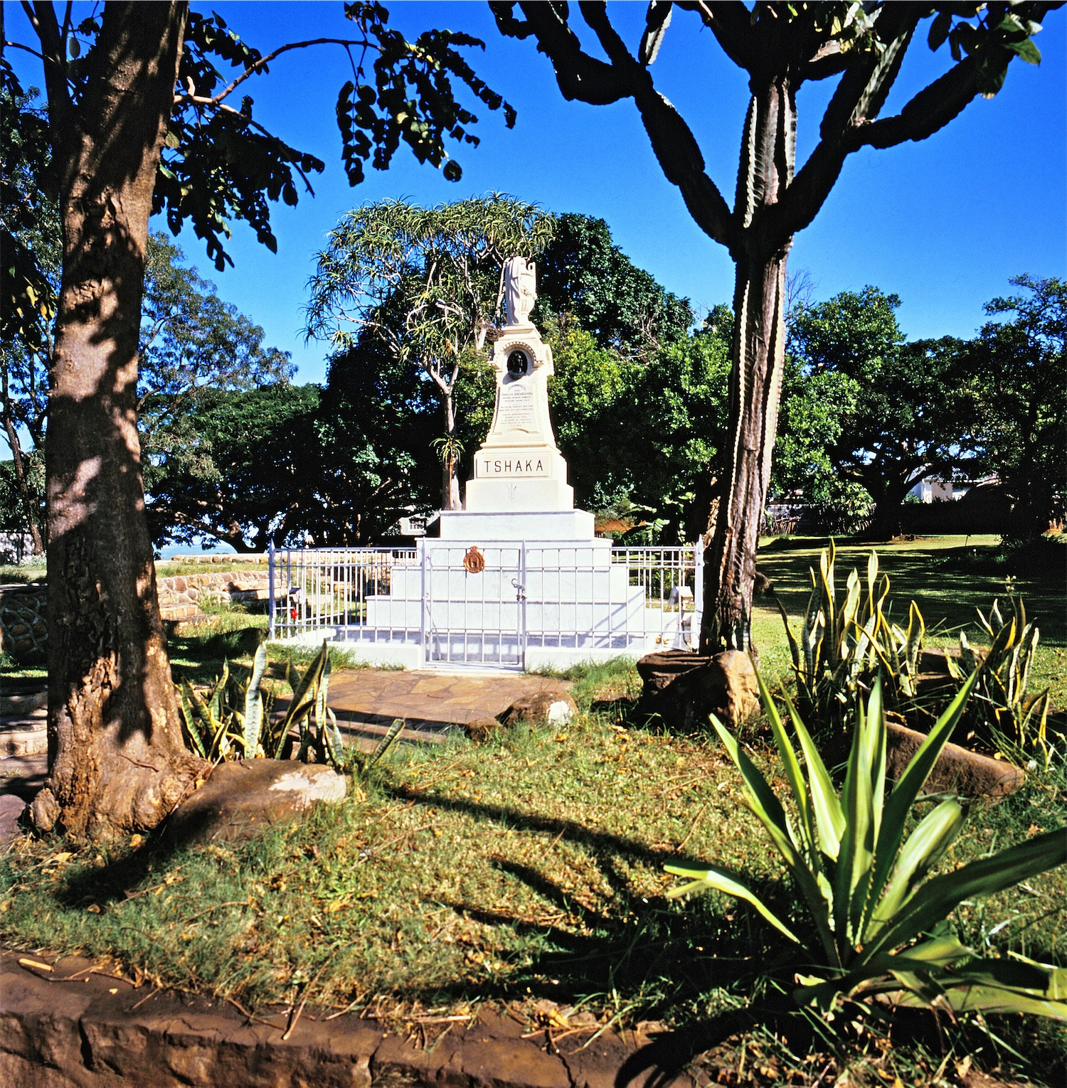 This media shows a South African Protected Site with SAHRA file reference 9/2/418/0002.